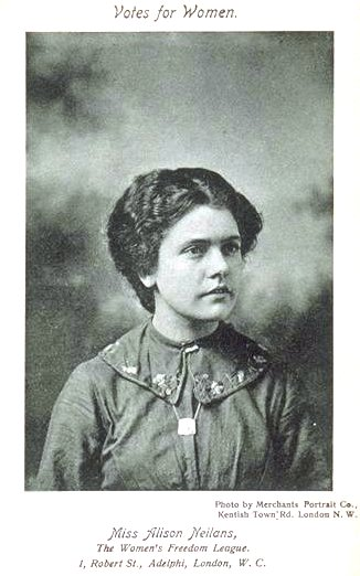 Postcard made for the Women's Freedom League with photographic portrait of Alison Neilans (1884-1942).